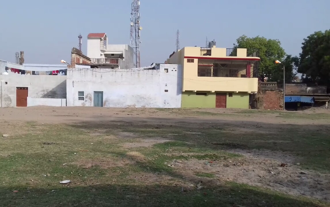 It is the image of cricket ground in Khairabad, Sitapur, instead of being a ground it is often called a khet (farm) by the locals. It is located on the post office road, near Baram Baba Mandir.